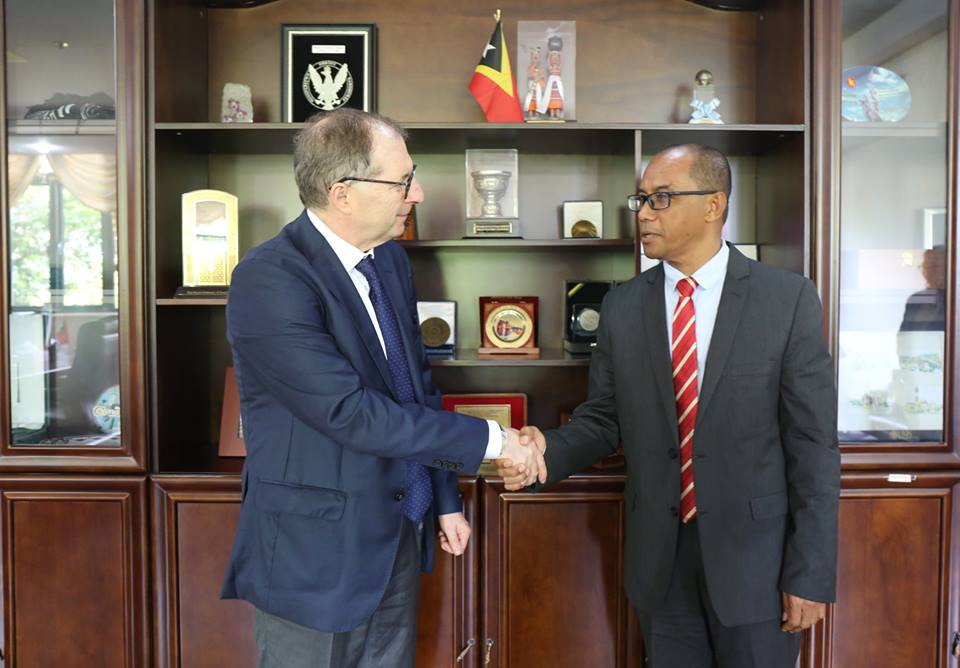 H.E. Minister for Foreign Affairs and Cooperation, Mr. Dionísio Babo Soares, accompanied by Chief of Staff, Mr. Agostinho Caet and the team from Directorate of Europe, Africa and Middle East Affairs of MoFAC, received a courtesy visit from Ambassador of France Republic to Timor-Leste, Mr. Jean-Charles Berthonnet with team. Venue: MoFAC meeting room